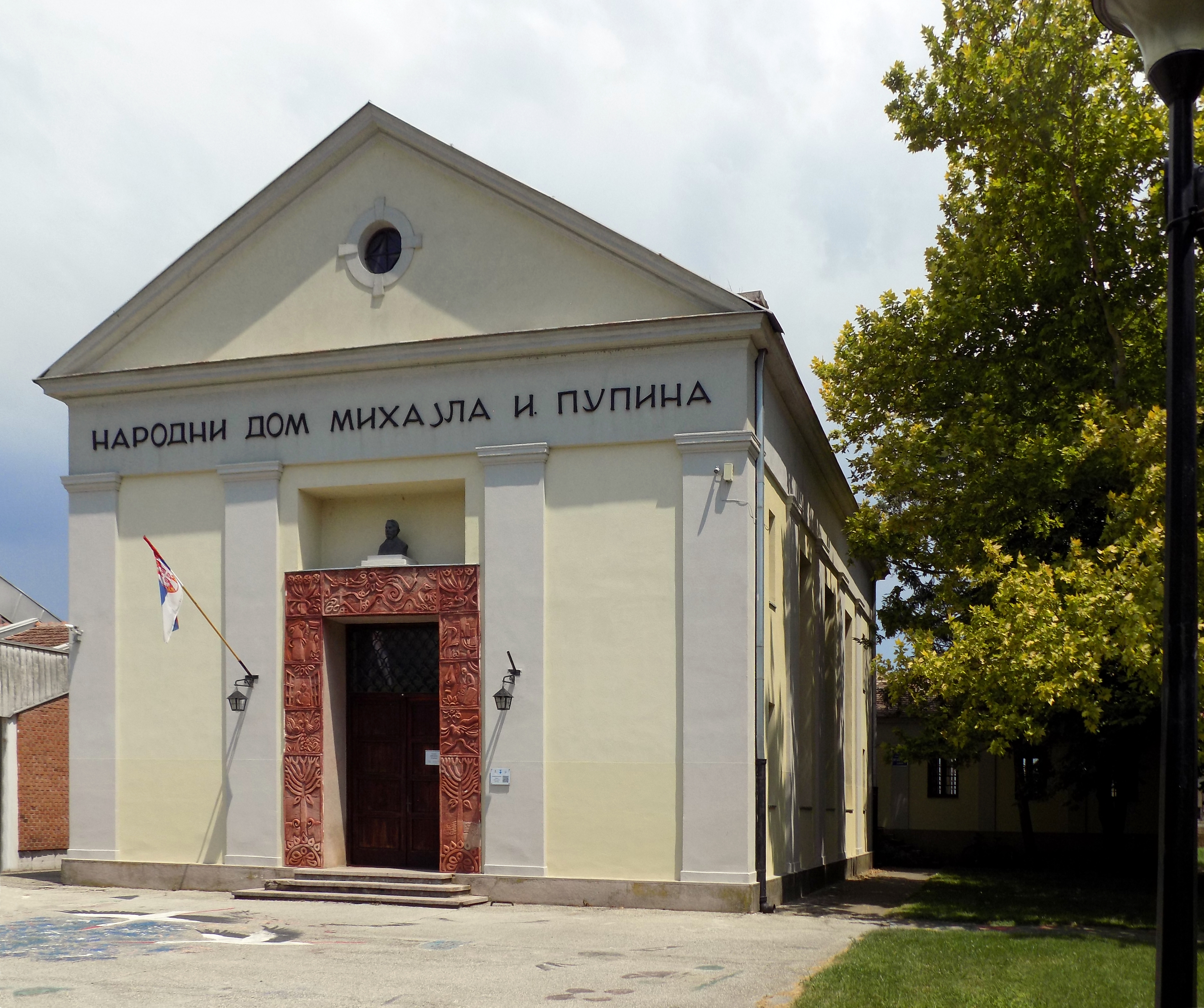 National House Mihajlo I. Pupin, Pupin's endowment in his native village of Idvor